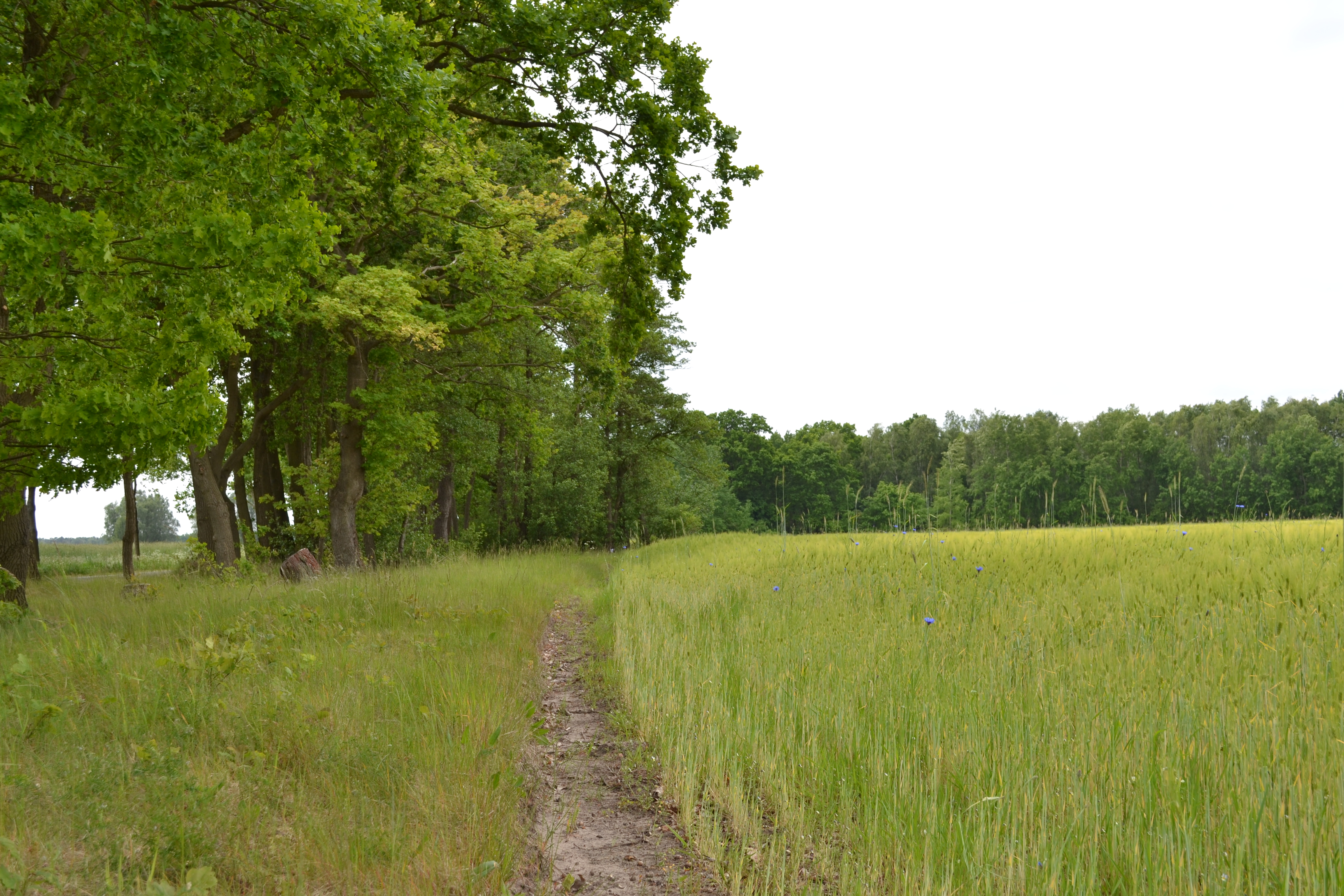 Breeding habitat of the ortolan bunting.